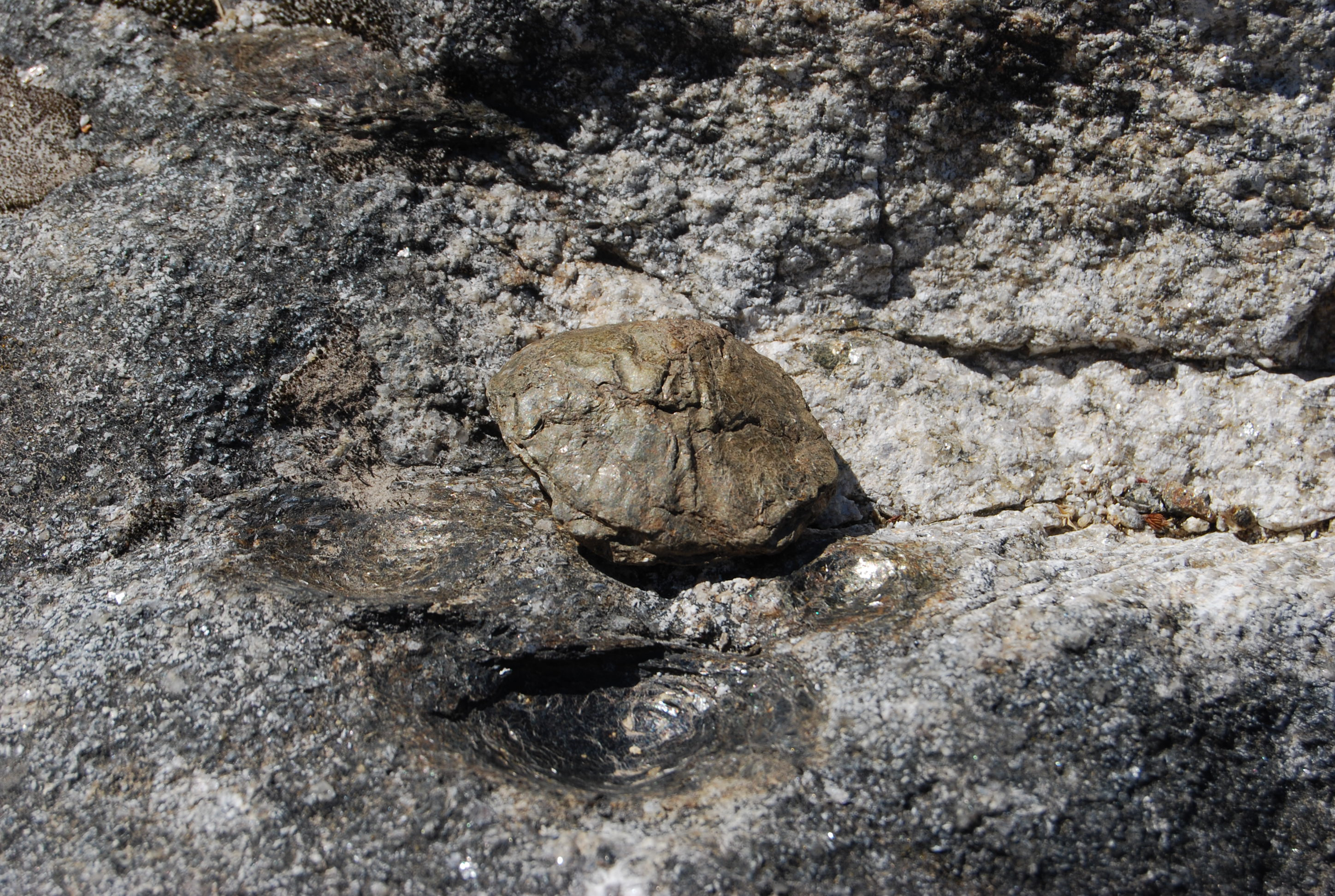 This file was uploaded for Wiki Loves Monuments in Portugal with the unique identifier 97008573.